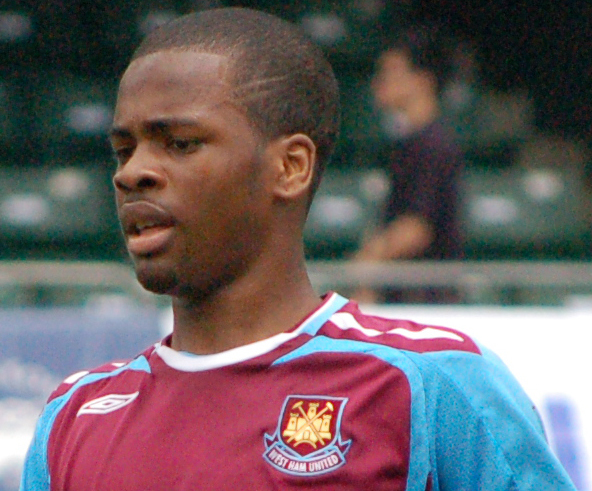 Zavon Hines on the pitch